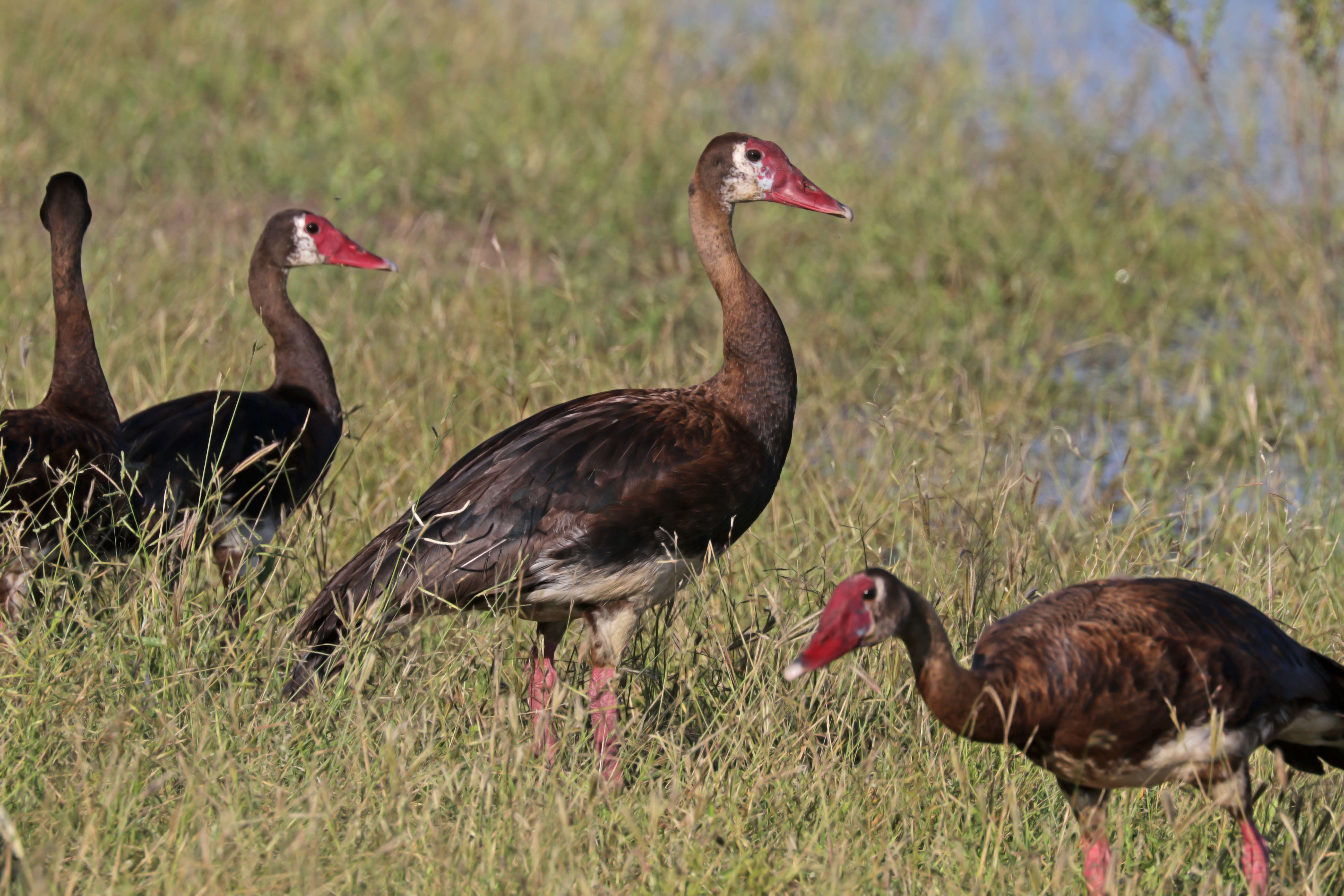 Spur-winged goose (Plectropterus gambensis), Chobe National Park, Botswana